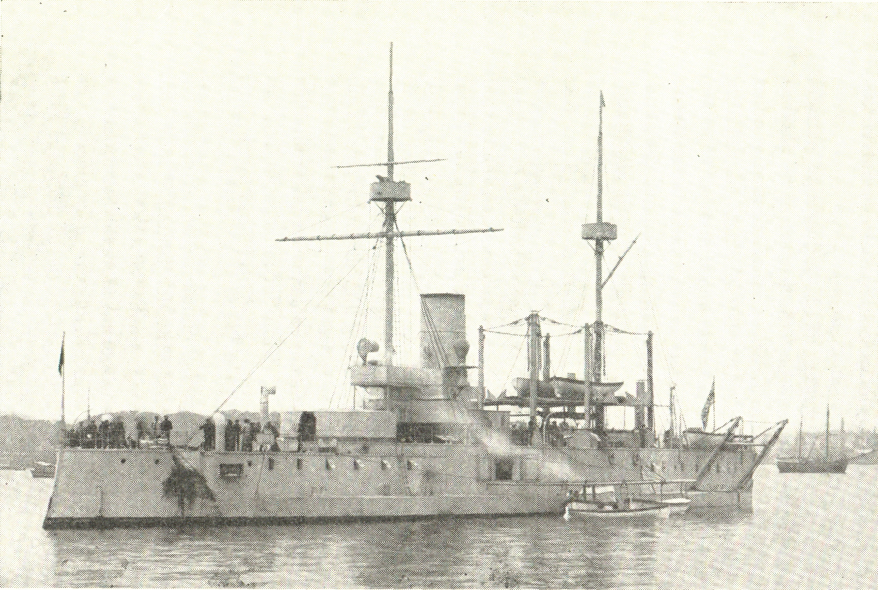 Danish Ironclad Battleship Helgoland, launched in 1878, serving 1879 - 1907.